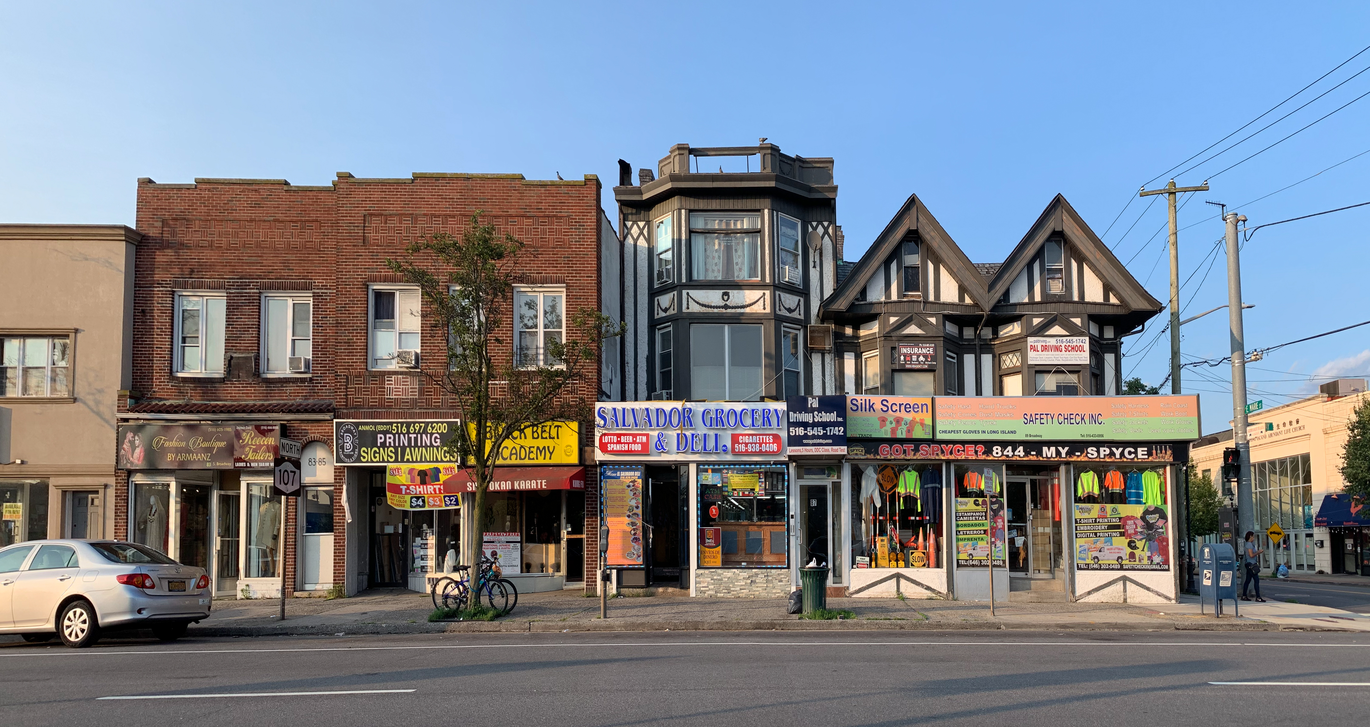 Buildings on Broadway, the heart of downtown Hicksville, New York.